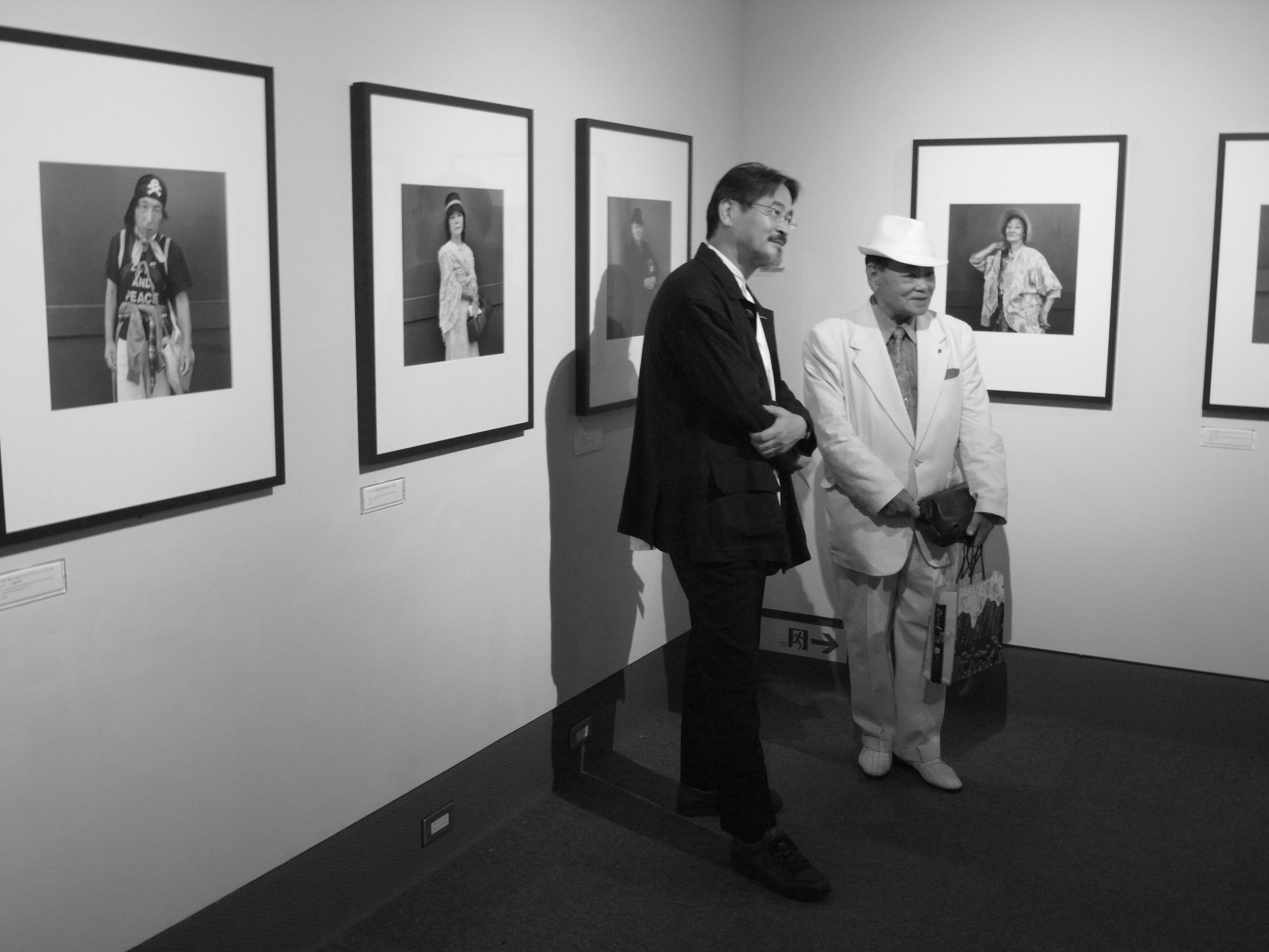 Hiroh Kikai (鬼海弘雄, in dark jacket) and (in white suit) Mr Watanabe (渡辺), one of the people whose portraits were shown in Kikai's exhibition "Tokyo Portraits" (東京ポートレイト), at the press preview for the exhibition at the Tokyo Metropolitan Museum of Photography (東京都写真美術館), 12 August 2011. The portrait of Mr Watanabe, in dark coat and hat, is on the wall immediately behind both men.